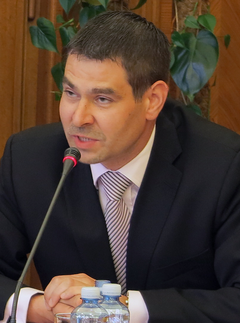 Mr Jiří Havlíček, Deputy Minister for Industry, 28 April 2014. Photo Credit: Conleth Brady / IAEA